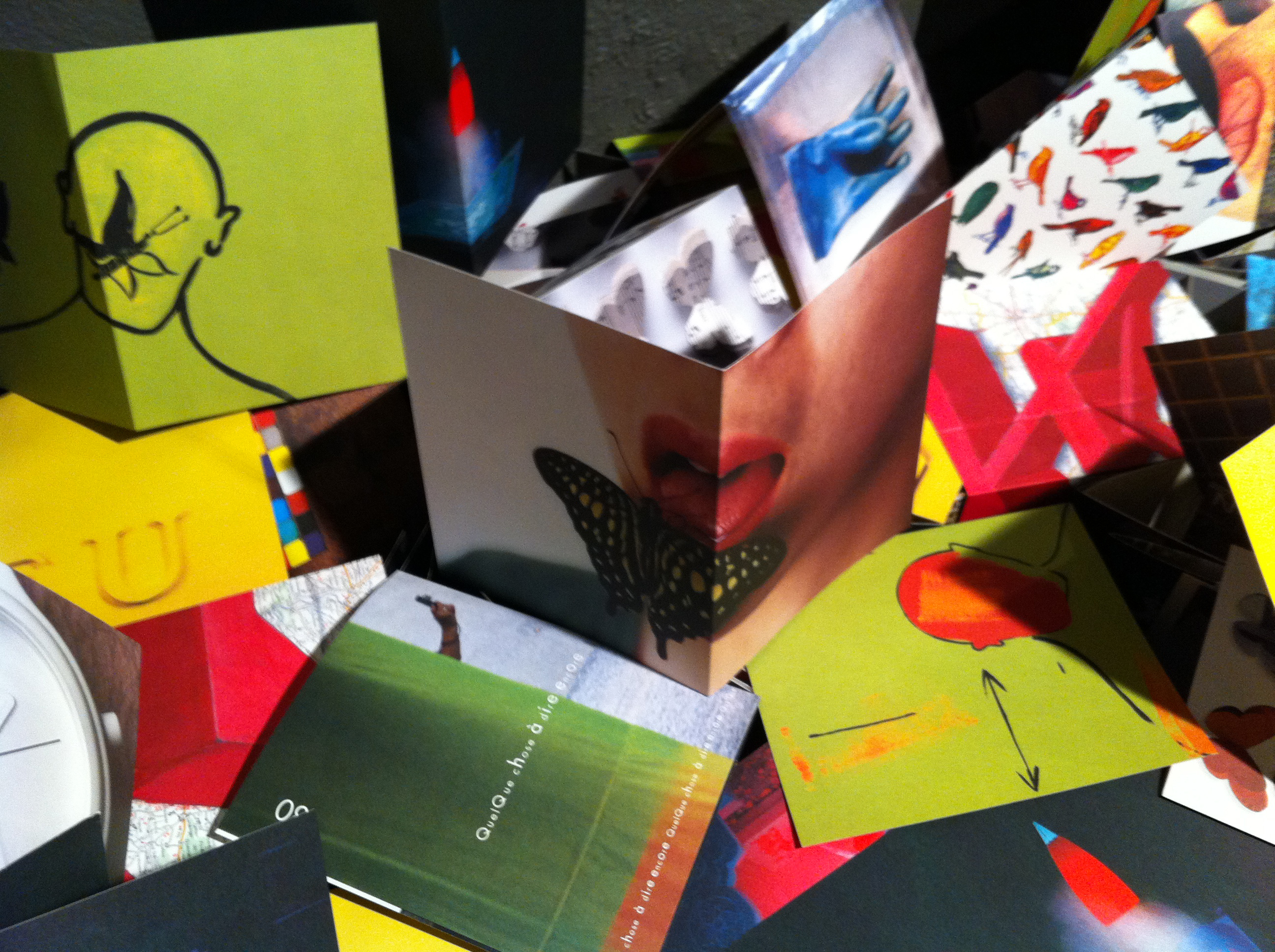 bi-annual contemporary art magazine Editor-in-chief and graphic designer Veronique Gay-Rosier